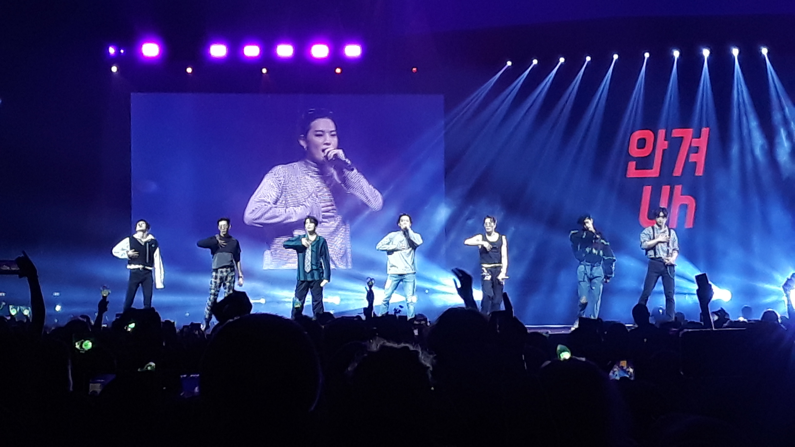 Got7 Keep Spinning Tour in Paris, 19 October 2019, performing "Come On"